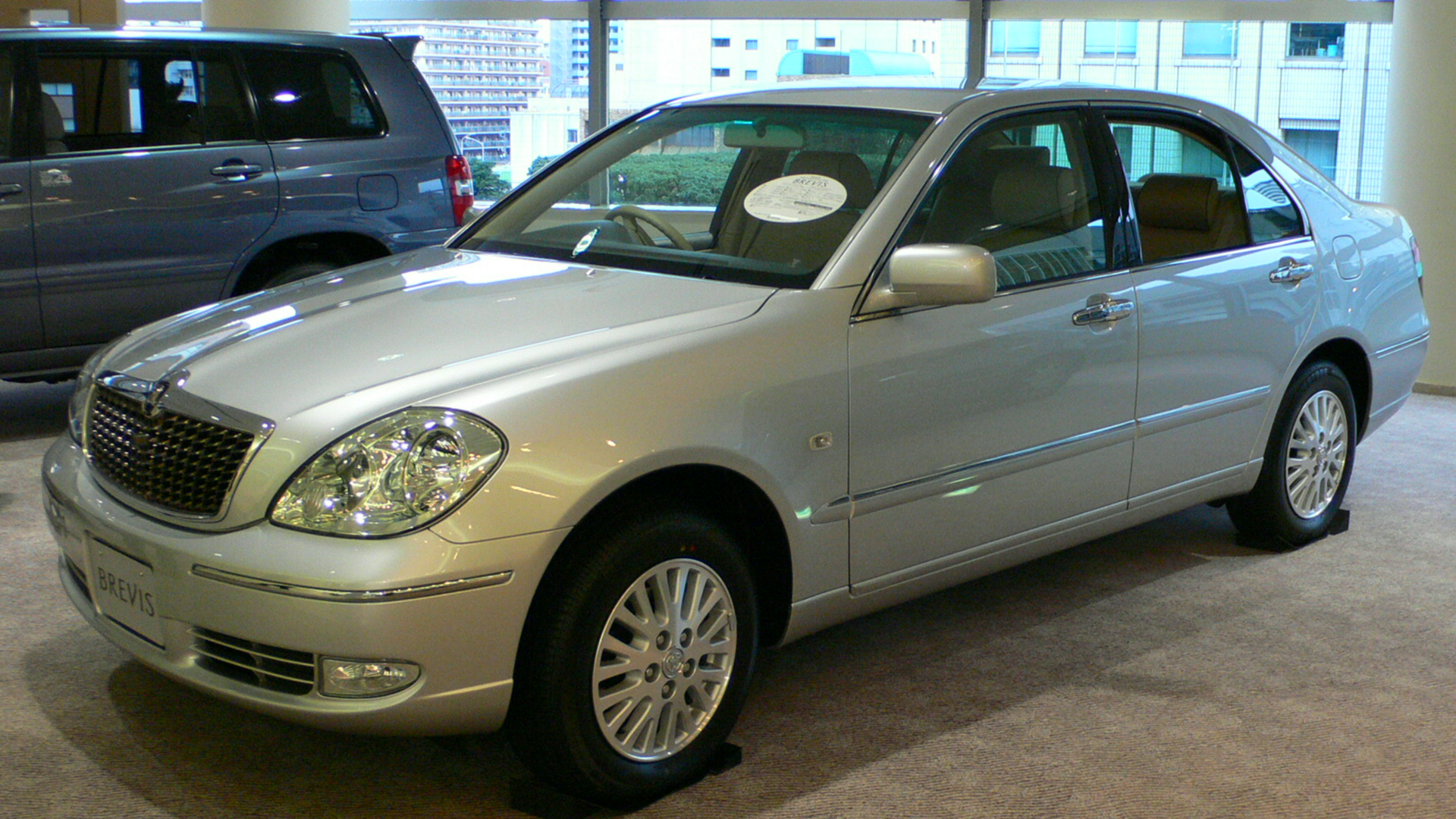 Toyota_Brevis(2004) taken in Showroom of Toyota-AMLUX